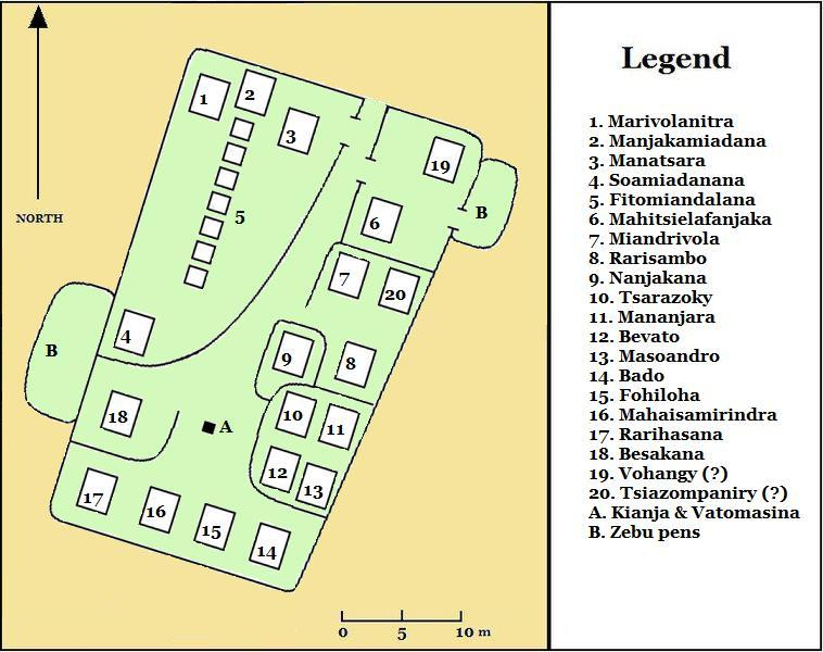 Map of the layout of the buildings within the Rova compound of Antananarivo, Madagascar, circa 1800 Plan indiquant la distribution des structures a l'interieur du Rova de Tananarive, Madagascar, vers 1800